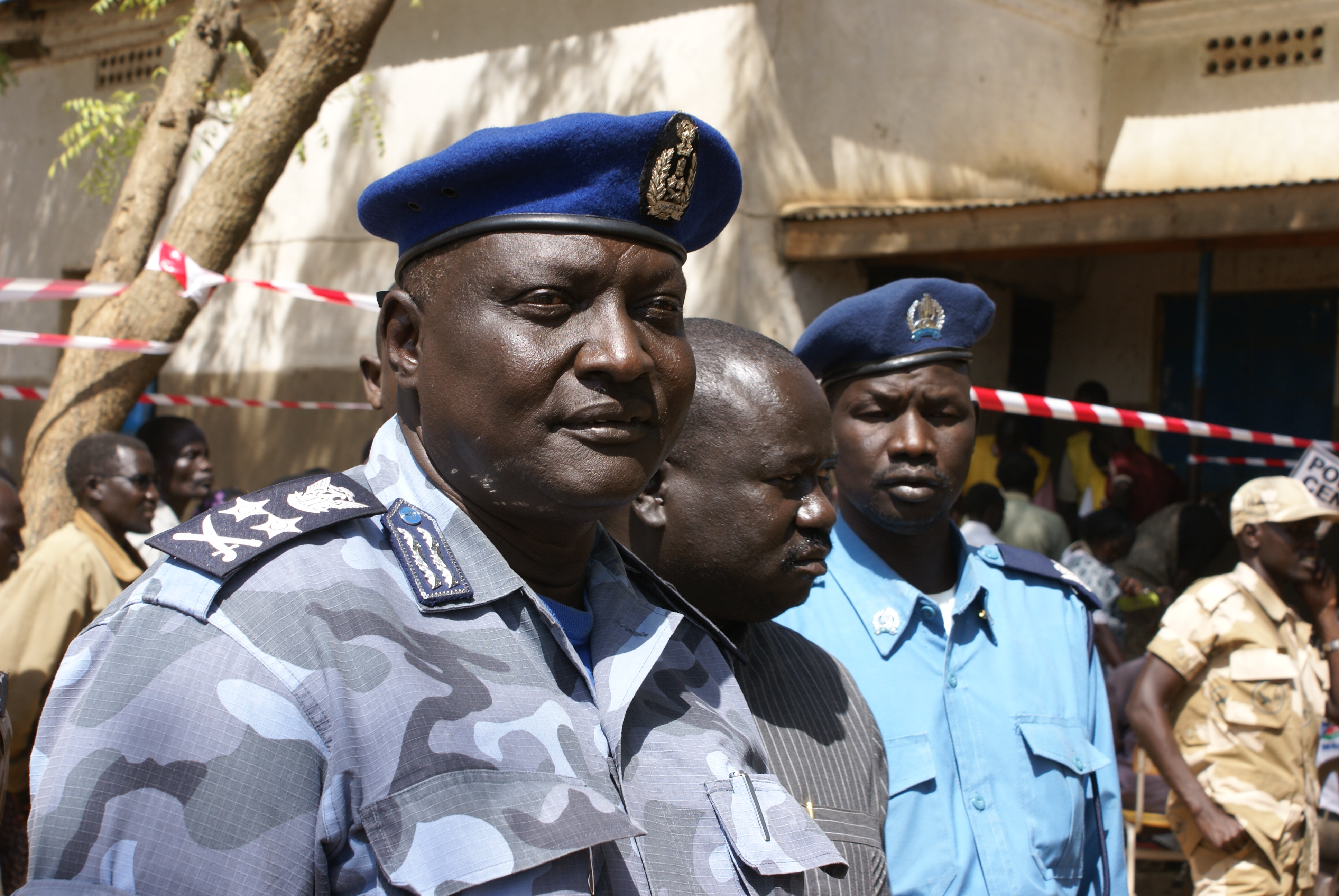 Inspector General of Police, First Lt.Gen. Acuil Tito Madut (left)